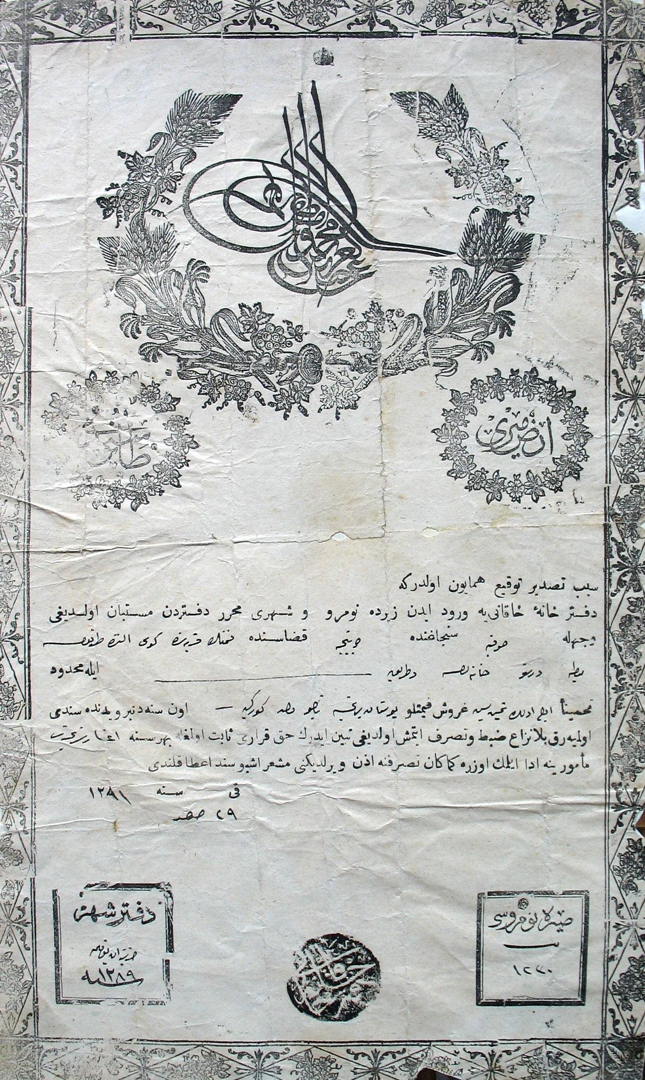 This photo is provided by the Historical Museum in Dupnitsa and is included in the album "Dupnitsa through the centuries" („Дупница през вековете“). Dupnitsa Municipality, Historical Museum - Dupnitsa. ISBN 978-954-8187-89-3.